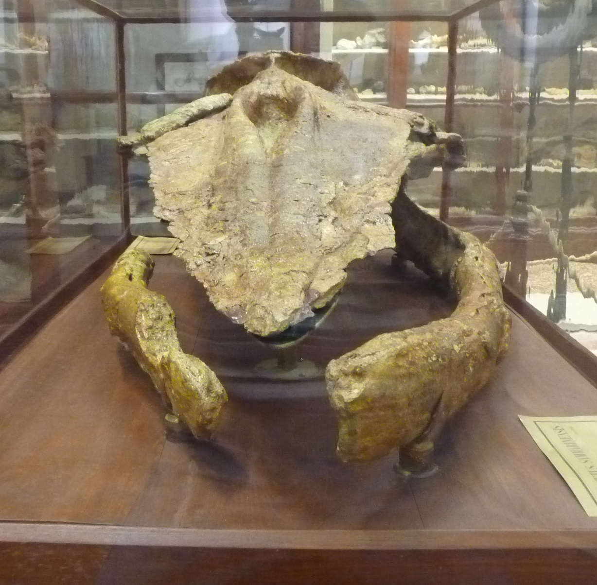 Fossil skull of Titanocetus sammarinensis (formerly Aulocetus sammarinensis), an extinct Cetotheriidae baleen whale. Middle Miocene of the Republic of San Marino. Museo Geologico Giovanni Capellini, Bologna (Italy).